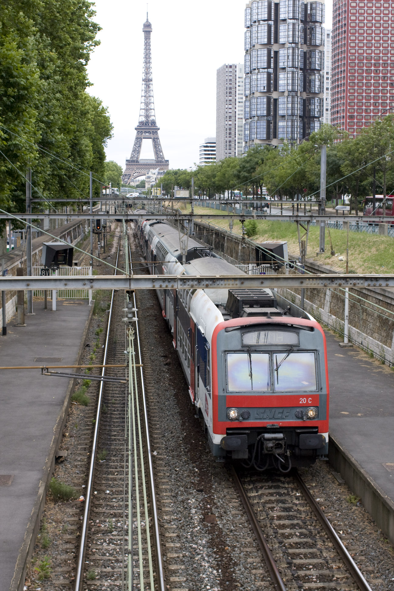 Z 5600 EMU on Javel station of RER Line C in front of Eiffel Tower, Paris